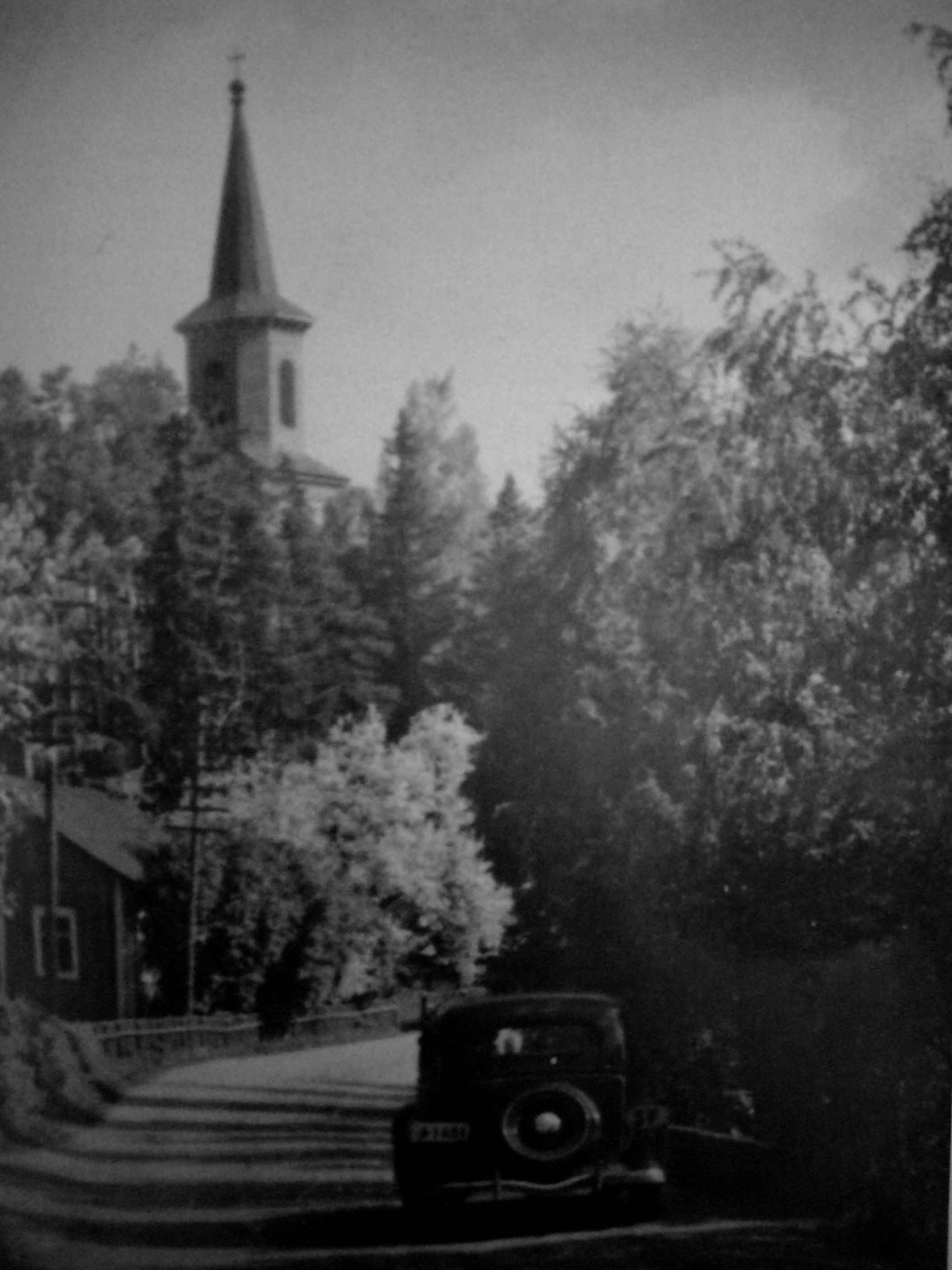 Karjalohja, Finland in 1939. The steeple of the church of Karjalohja in the background.